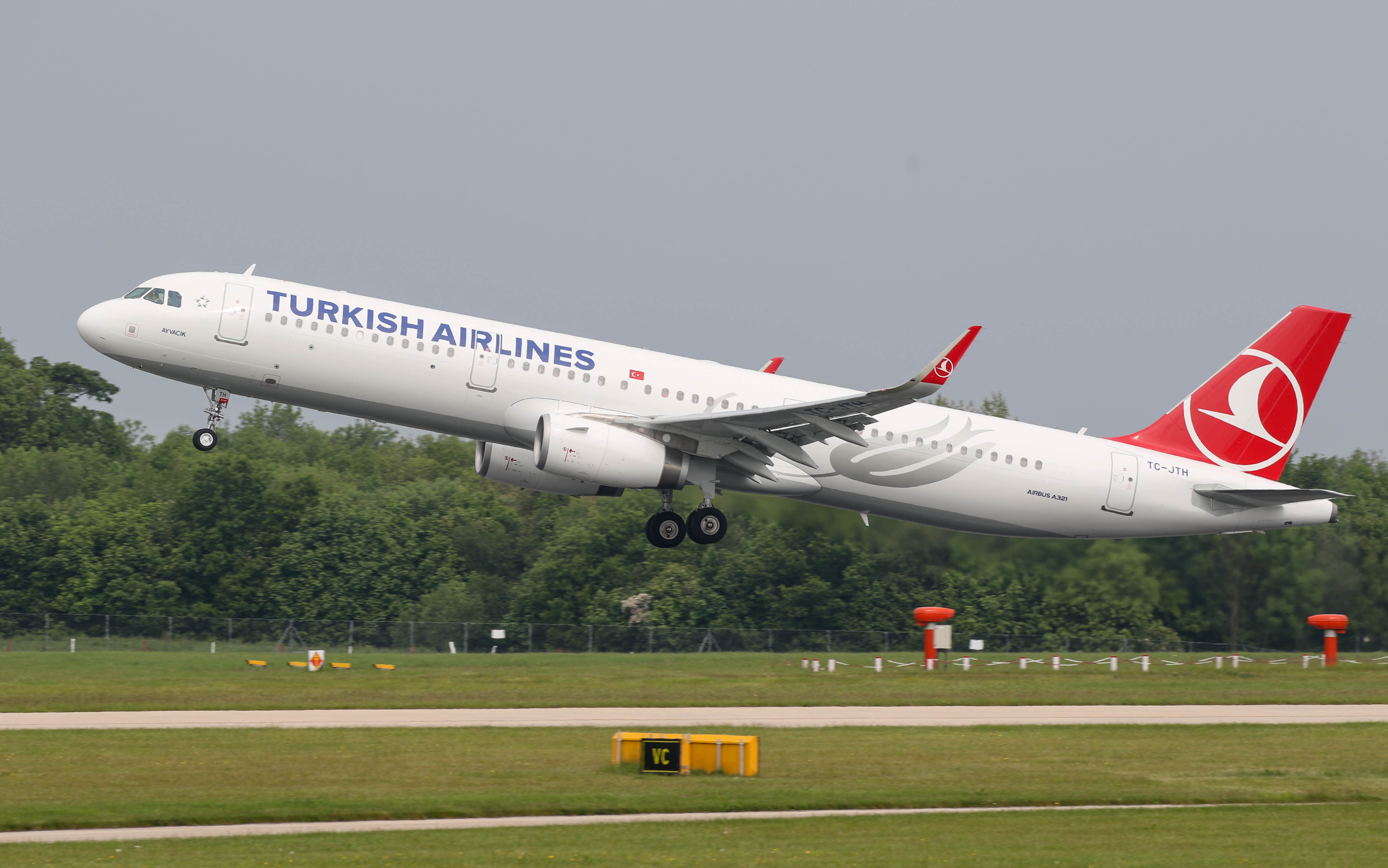 Turkish Airlines Airbus A321 TC-JTH